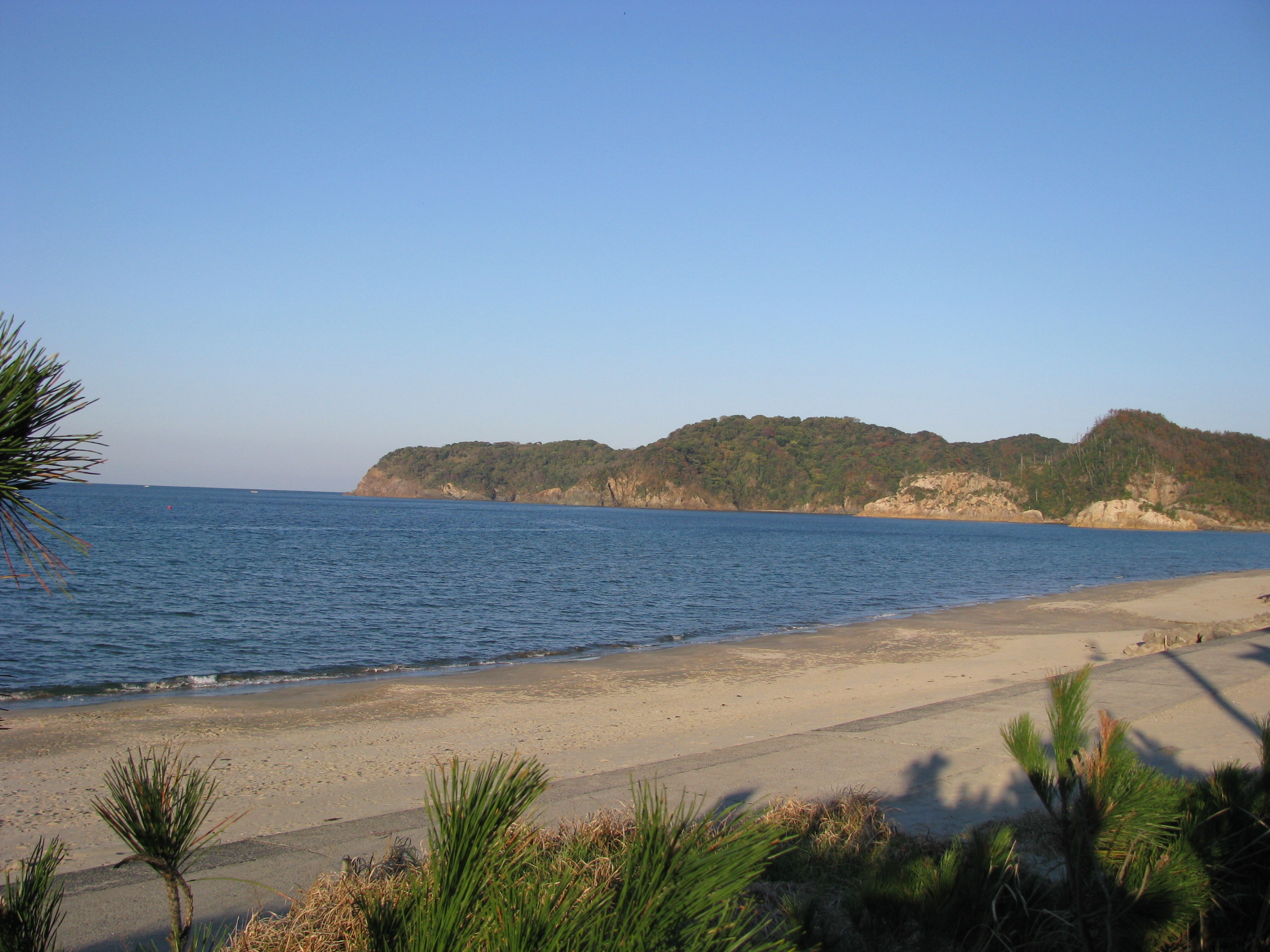 The Uradome beach. This place is Iwami, Iwami District, Tottori Prefecture, Japan.